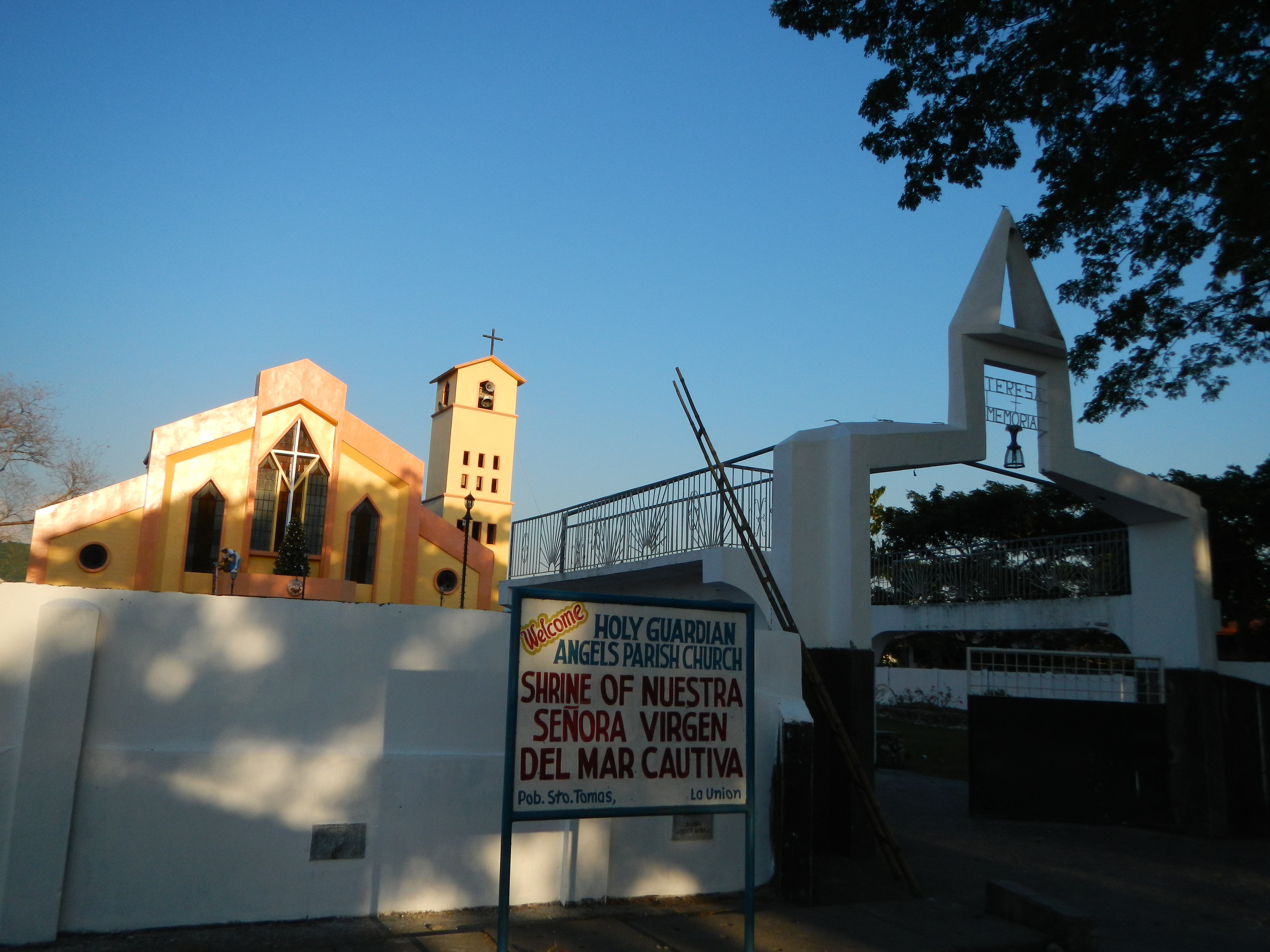 Poblacion, Santo Tomas, La Union Poblacion hall, children's park, plaza and auditorium, Santo Tomas Miraculous water of Santo Tomas, La Union Statues of Jose Rizal in Santo Tomas, La Union Holy Guardian Angel's Parish Church & Shrine and Sanctuary of Nuestra Señora Virgen de Mar Cautiva (Our Lady Captive from the Sea) Virgen del Mar Cautiva Roman Catholic Diocese of San Fernando de La Union July 19, 2017 Holiday in Santo Tomas, La Union the First Sanglad Festival Re-enactment of the arrival of Nuestra Señora Virgen de Mar Cautiva in Sitio Baraca, Poblacion on July 19, 1845; on October 21, 2015 170th Anniversary of the Shrine of Nuestra Señora Virgen de Mar Cautiva on July 19, 2015 Our Lady of Namacpacan Statues of Guardian Angels in the Philippines Statues of Our Lady of Charity in the Philippines Saint Mary of the Sea Academy (Santo Tomas, La Union) Old Acacia trees in Santo Tomas, La Union Sitio Barraca, Poblacion, Santo Tomas, La Union Landing Shrine of Nuestra Señora Virgen de Mar Cautiva July 19, 1845 Fish ponds in Santo Tomas, La Union Raois, Santo Tomas, La Union in Category:Sitios and puroks of the Philippines Subdivisions of the Philippines List of barangays in La Union Barangay Poblacion 16.2817, 120.3834 Santo Tomas, La Union (Note: Judge Florentino Floro, the owner, to repeat, Donor Florentino Floro of all these photos hereby donate gratuitously, freely and unconditionally Judge Floro all these photos to and for Wikimedia Commons, exclusively, for public use of the public domain, and again without any condition whatsoever).